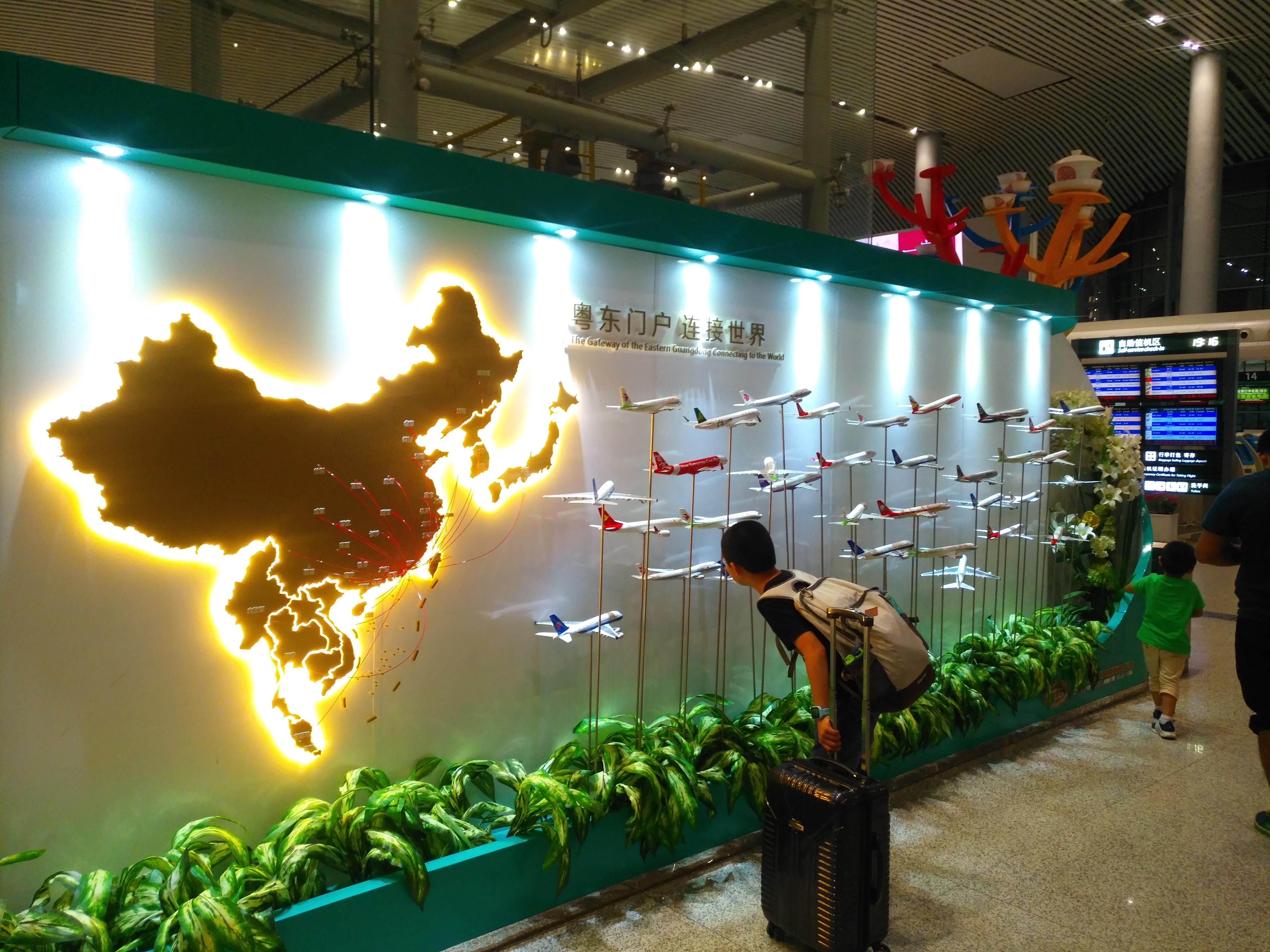 The map and plane models board in Jieyang Chaoshan International Airport.